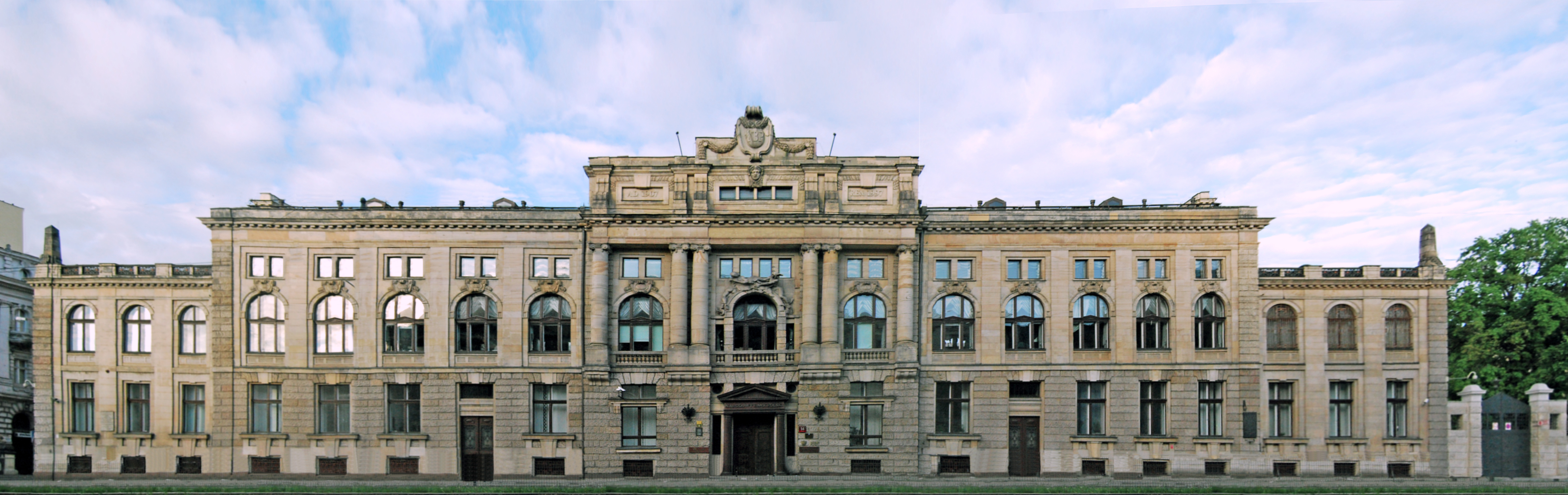 Polish National Bank, facade, Kosciuszki Street no. 14, Lodz